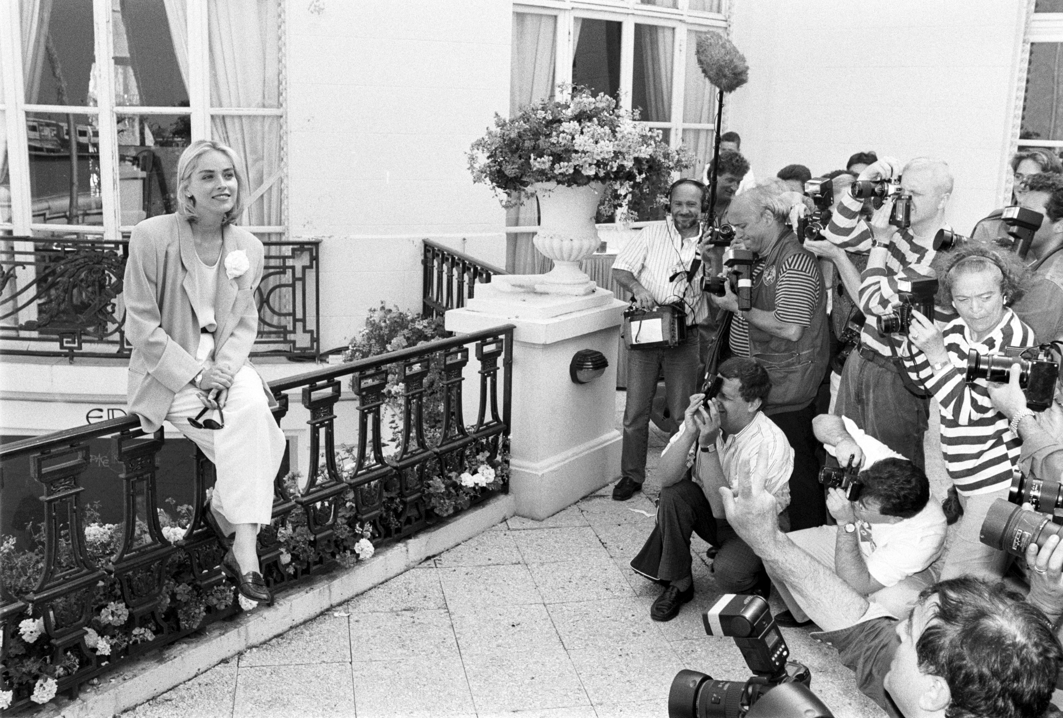 Sharon Stone at Deauville American Film Festival (Calvados, France).